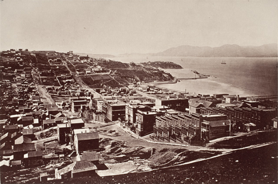 United States, circa 1868 Photographs Albumen print Gift of Graham and Susan Nash (M.91.359.75) Photography